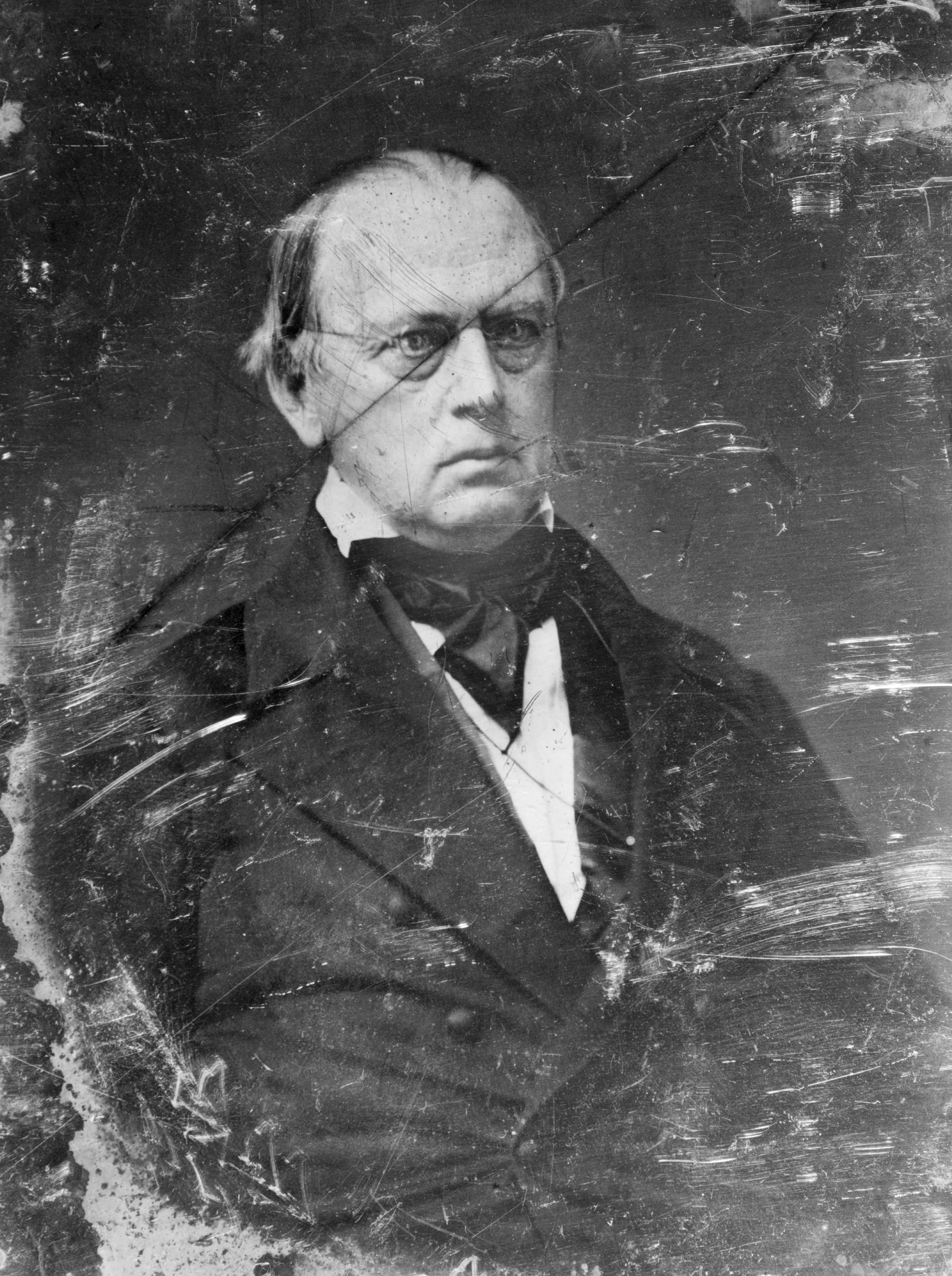 Truman Smith. Whig Congressman from Connecticut, 1839-1843, 1845-1949; Senator, 1849-1854.